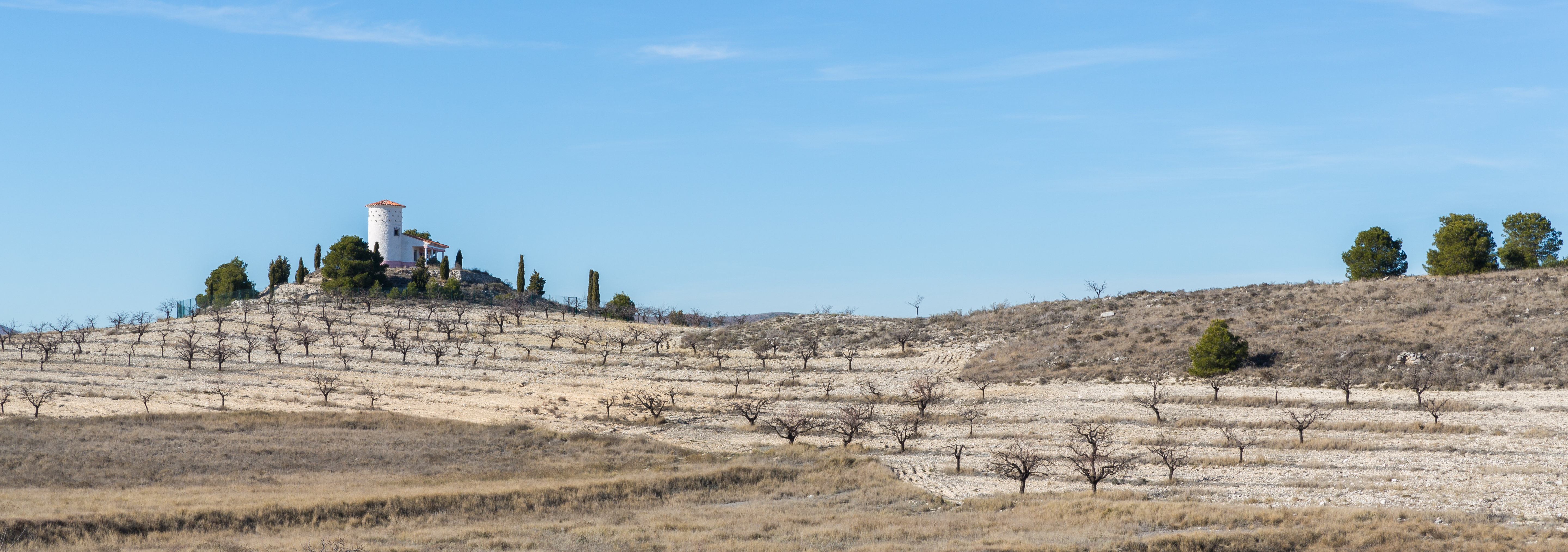 Sommer house, Munébrega Zaragoza, Spain